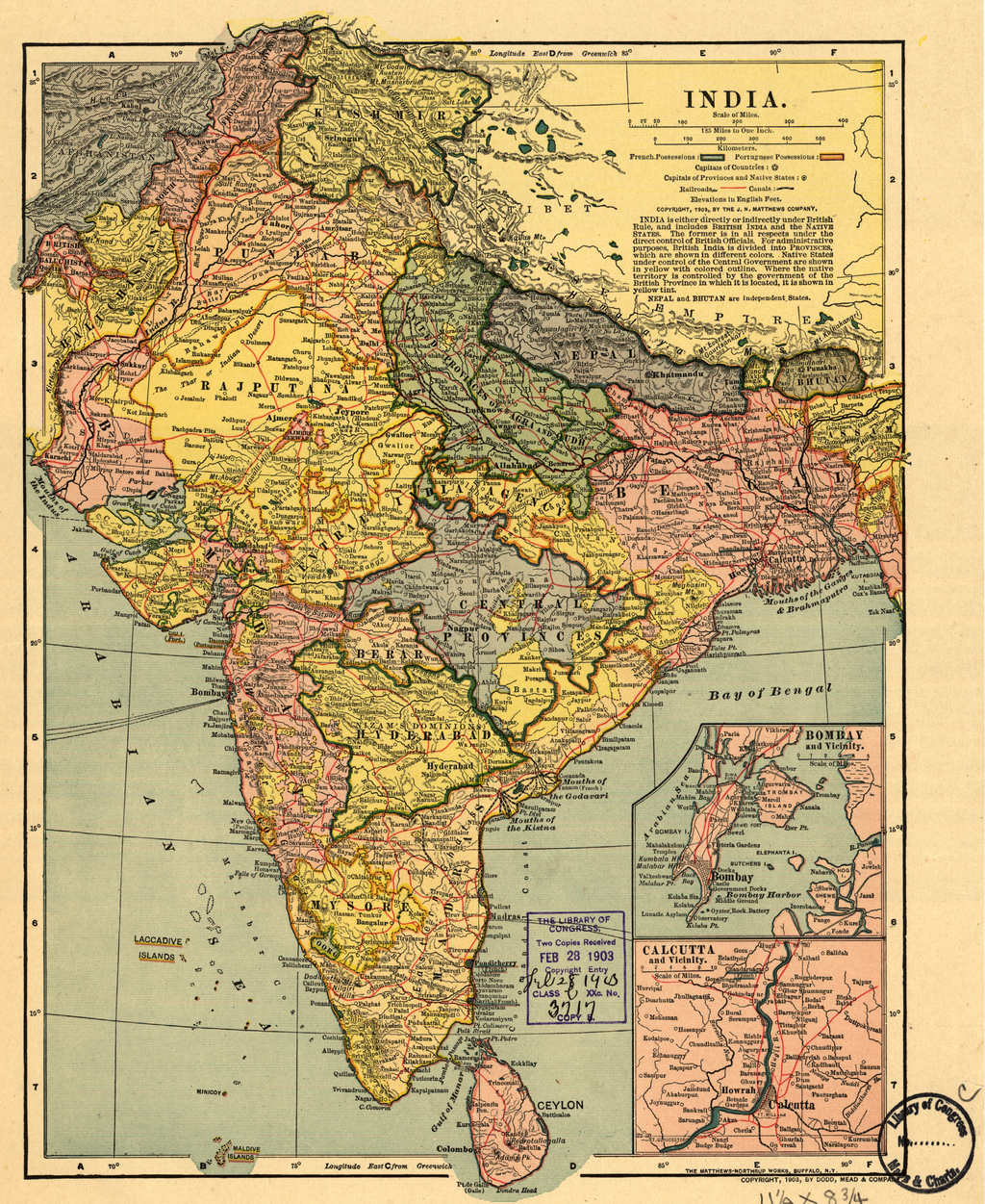 "This early-20th century map shows the British Empire in India, a complex political structure that was made up of provinces directly ruled by Britain and the Native--or Princely--States, which were ruled indirectly through Indian sovereigns subject to British suzerainty. Also shown on the map are the French and Portuguese enclaves, the independent states of Nepal and Bhutan, and the island of Ceylon (present-day Sri Lanka), which was under British rule but not part of the Indian Empire. India became independent in 1947, but was partitioned into the states of India and Pakistan. The latter in turn split, in 1971, into Pakistan and Bangladesh. The publisher of the map, Dodd, Mead, and Company, was founded in New York in 1839 by Moses Woodruff Dodd and John S. Taylor, and was originally a publisher of religious books. In 1870, when Dodd's nephew Edward S. Mead took over the firm, it became Dodd and Mead, and later Dodd, Mead, and Company. One of its best known publications was the 20-volume New International Encyclopedia (1903-04), in which this map also appeared."